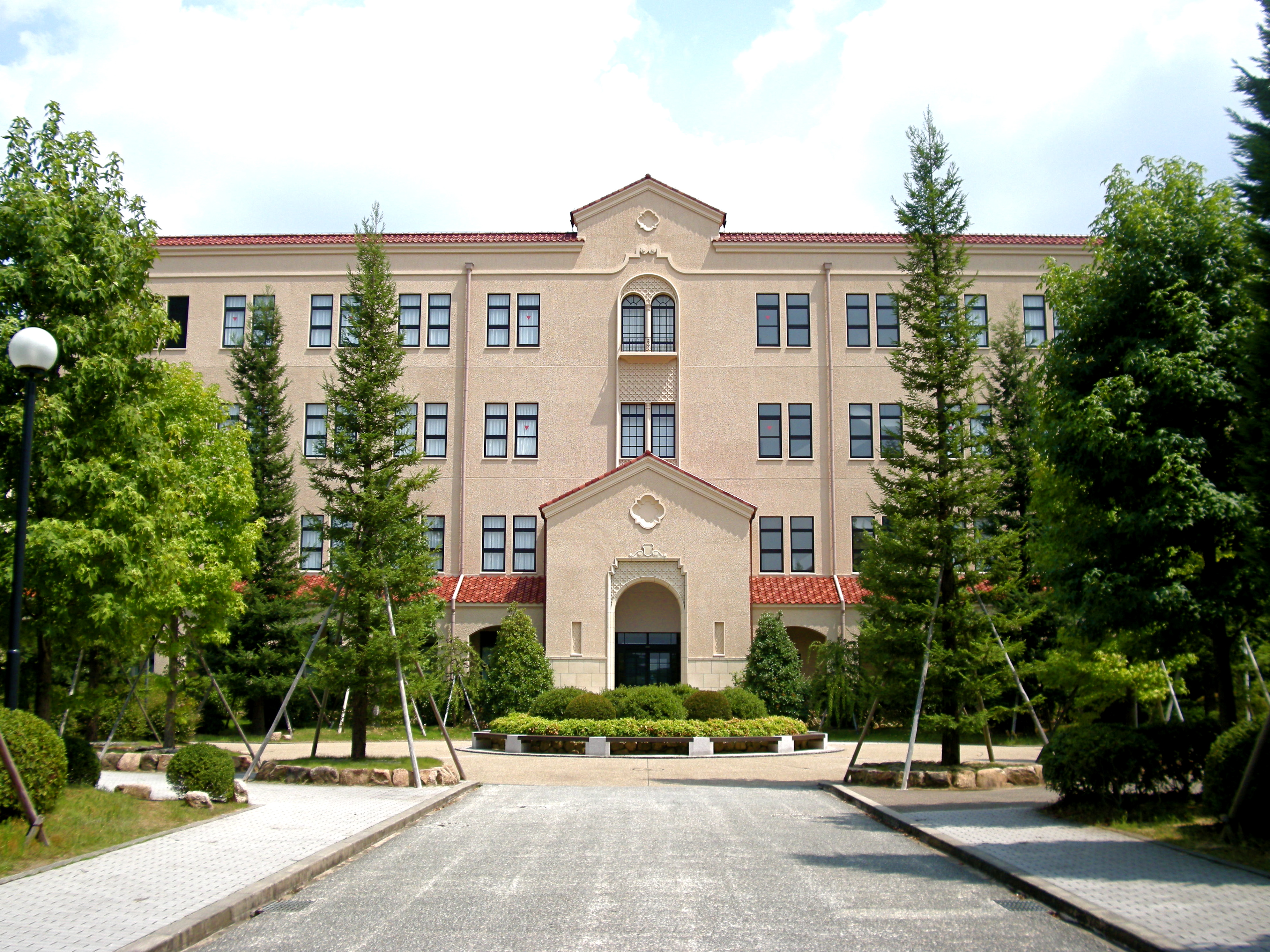 Library and Media Centre at Kobe-Sanda Campus of Kwansei Gakuin University (Sanda, Hyogo)